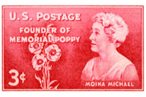 1948 U.S. postage stamp honoring Moina Michael